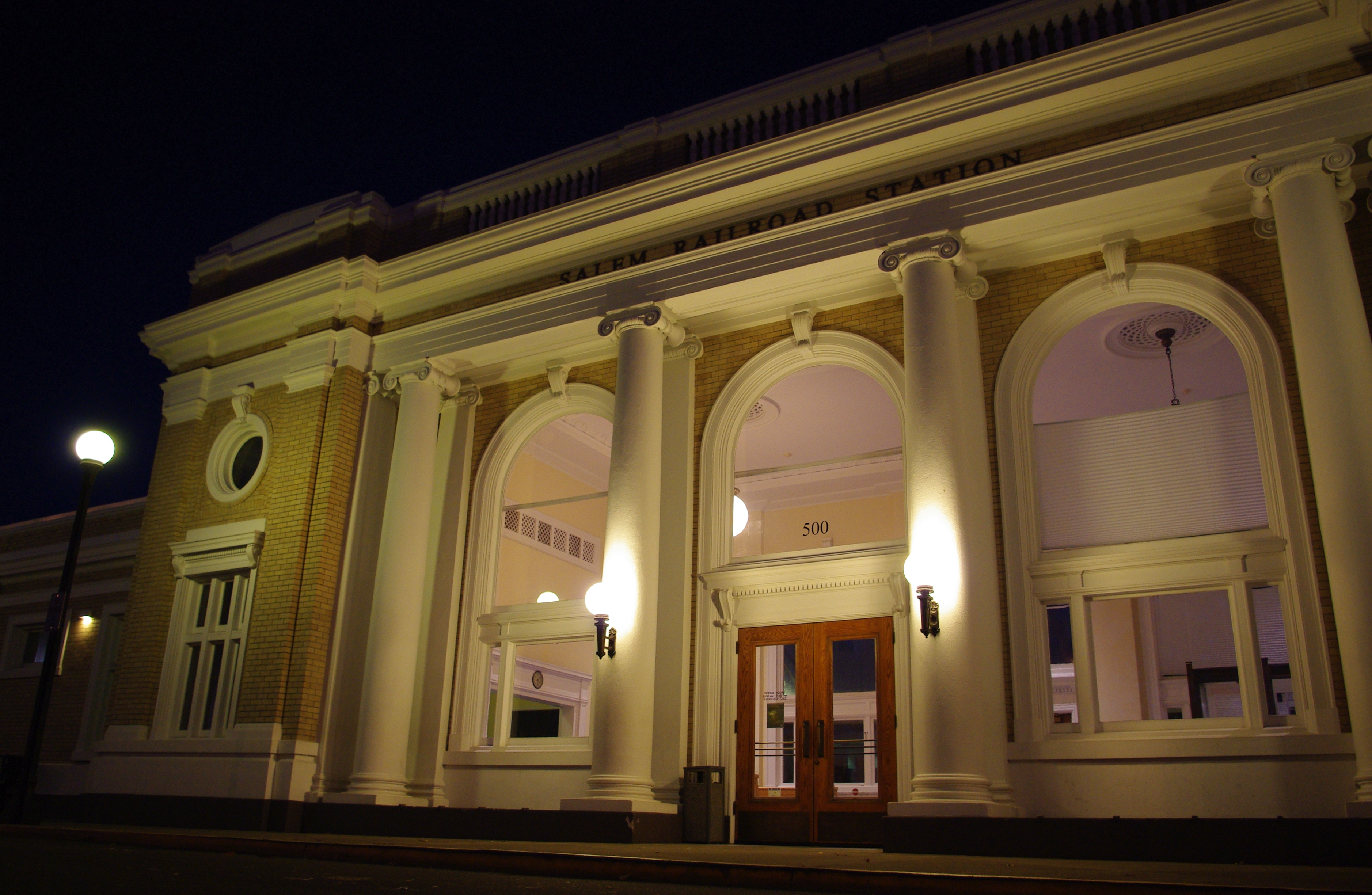 The Salem Amtrak station, built in 1918 by Southern Pacific Railroad, is listed on the National Register of Historic Places.